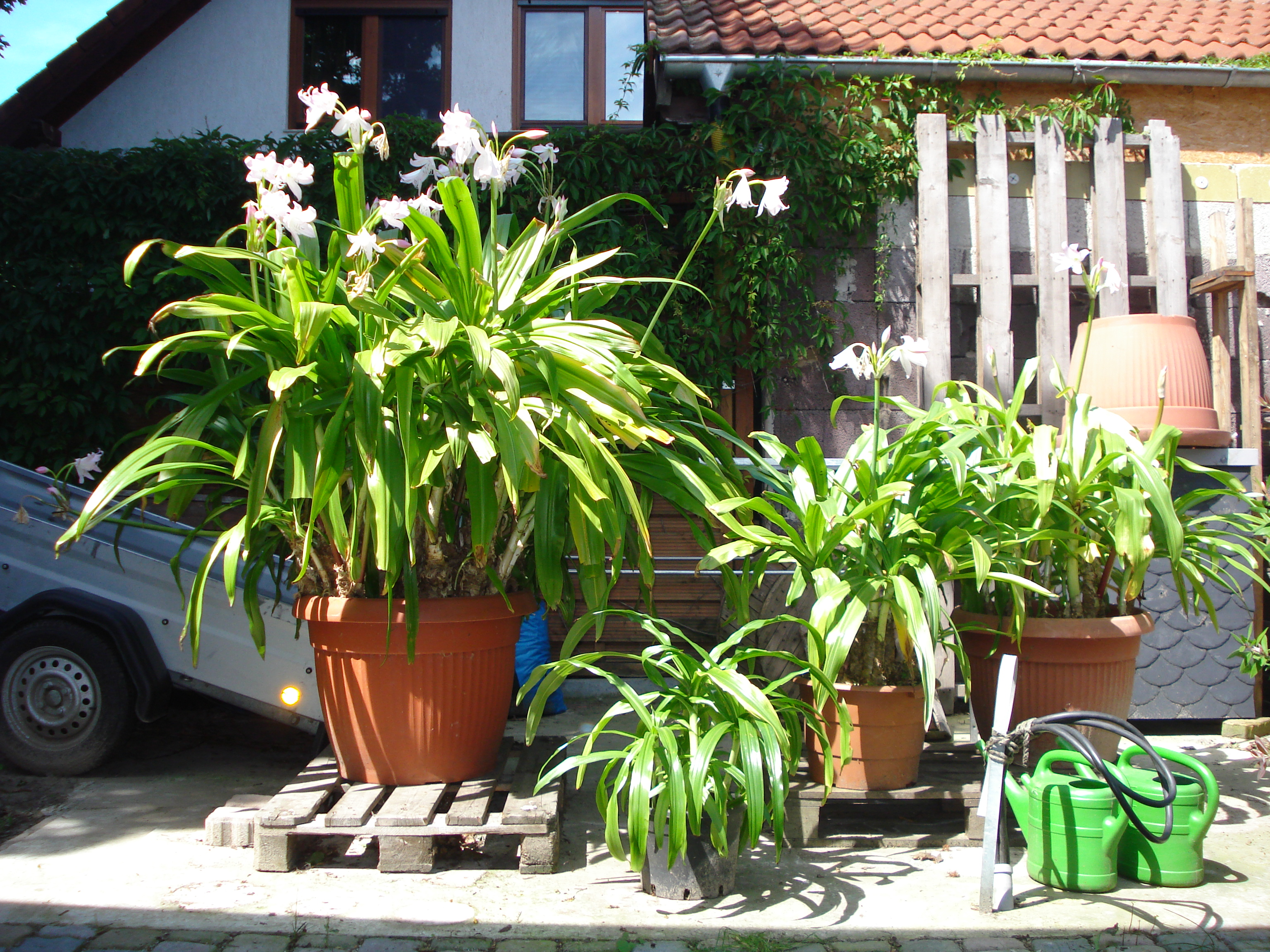 age: 25 years, 4 years, 7 years and 9 years old